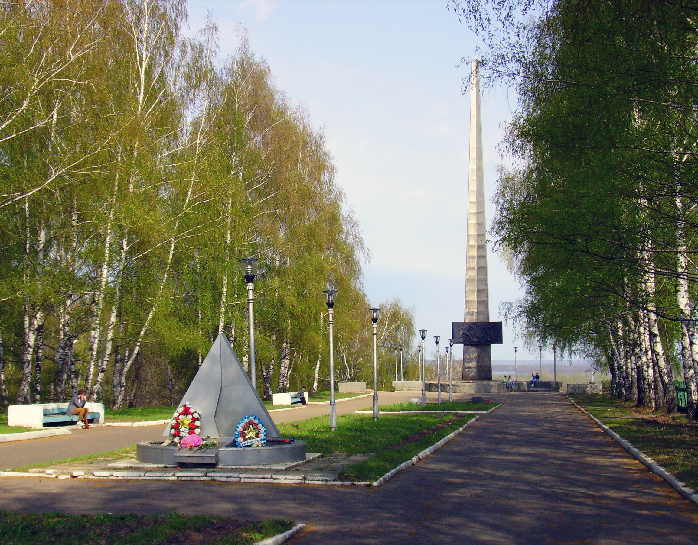 Monument to Soviet Soldiers perished in Afghanistan